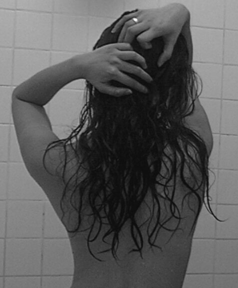 Shower